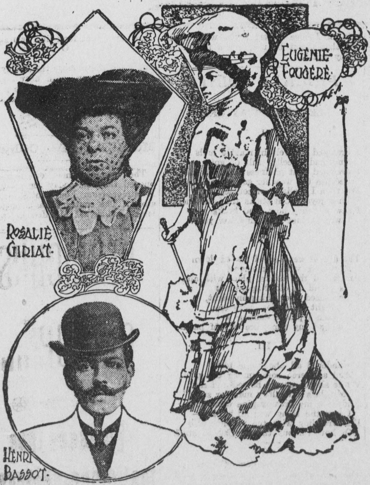 Eugénie Fougère and the two people arrested for her murder: Victorine Giriat (who apparently was also called "Rosalie"), and Henri Bassot.